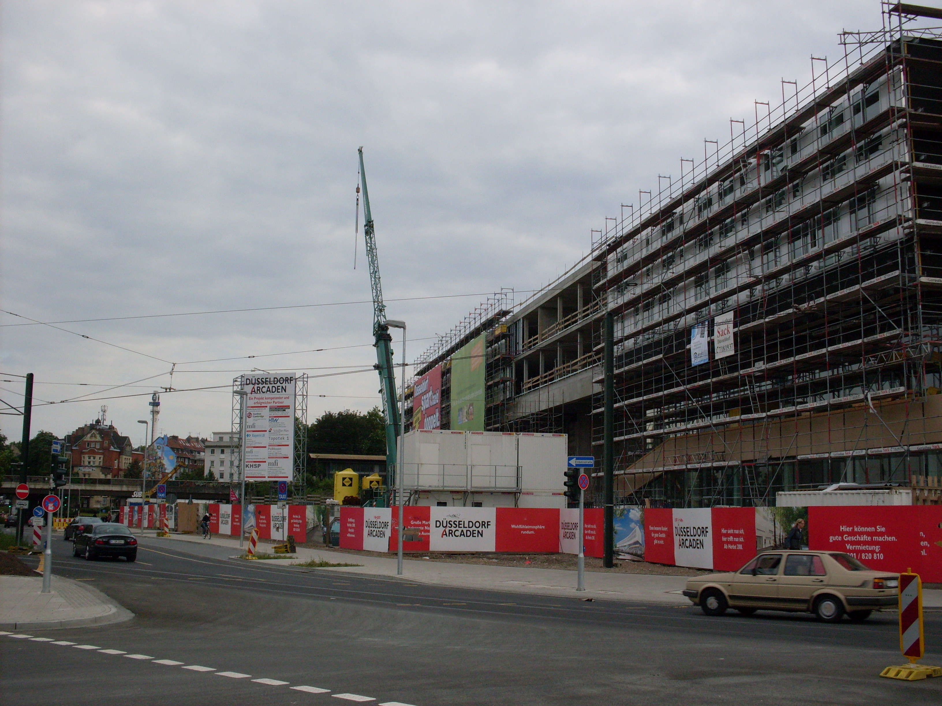 Shopping Center Düsseldorf Arcaden under construction